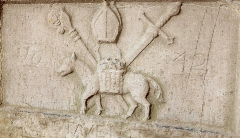 Coat of arms of the prince-abbot of Stavelot (Stavelot-Malmédy) carved on a stone in the wall of. St. Remacle Church in the village of Louveigné. The use of the crozier and the sword indicates that the prince-abbot was both a spiritual and temporal lord. The prince-abbot had seat and voice at the Imperial Diet.